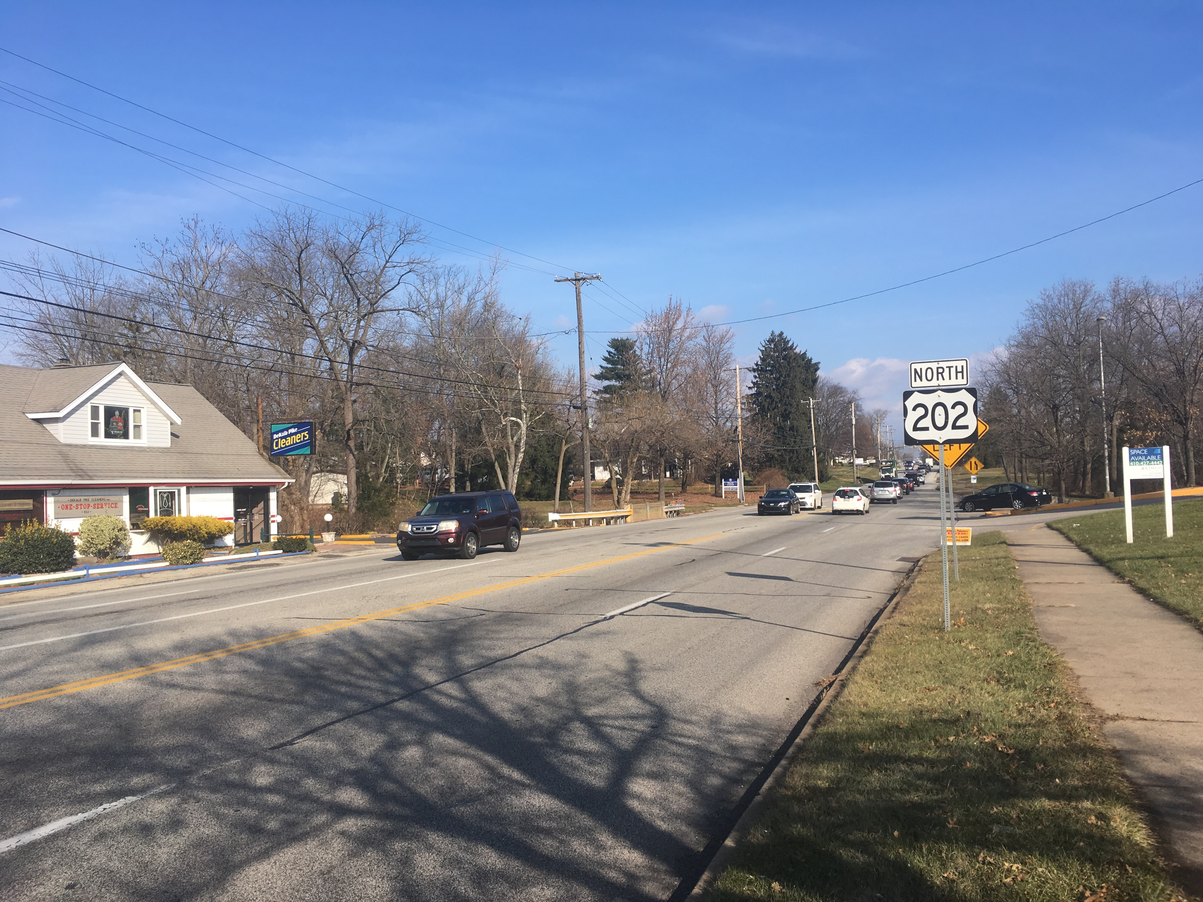 Northbound U.S. Route 202 (Dekalb Pike) past the intersection with Pennsylvania Route 73 (Skippack Pike) in Blue Bell, Pennsylvania